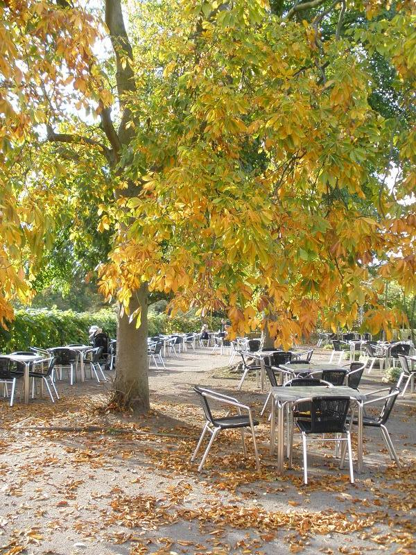 Horse-chestnut or Conker tree (Aesculus hippocastanum) in autumn colours in Kew Gardens, UK.